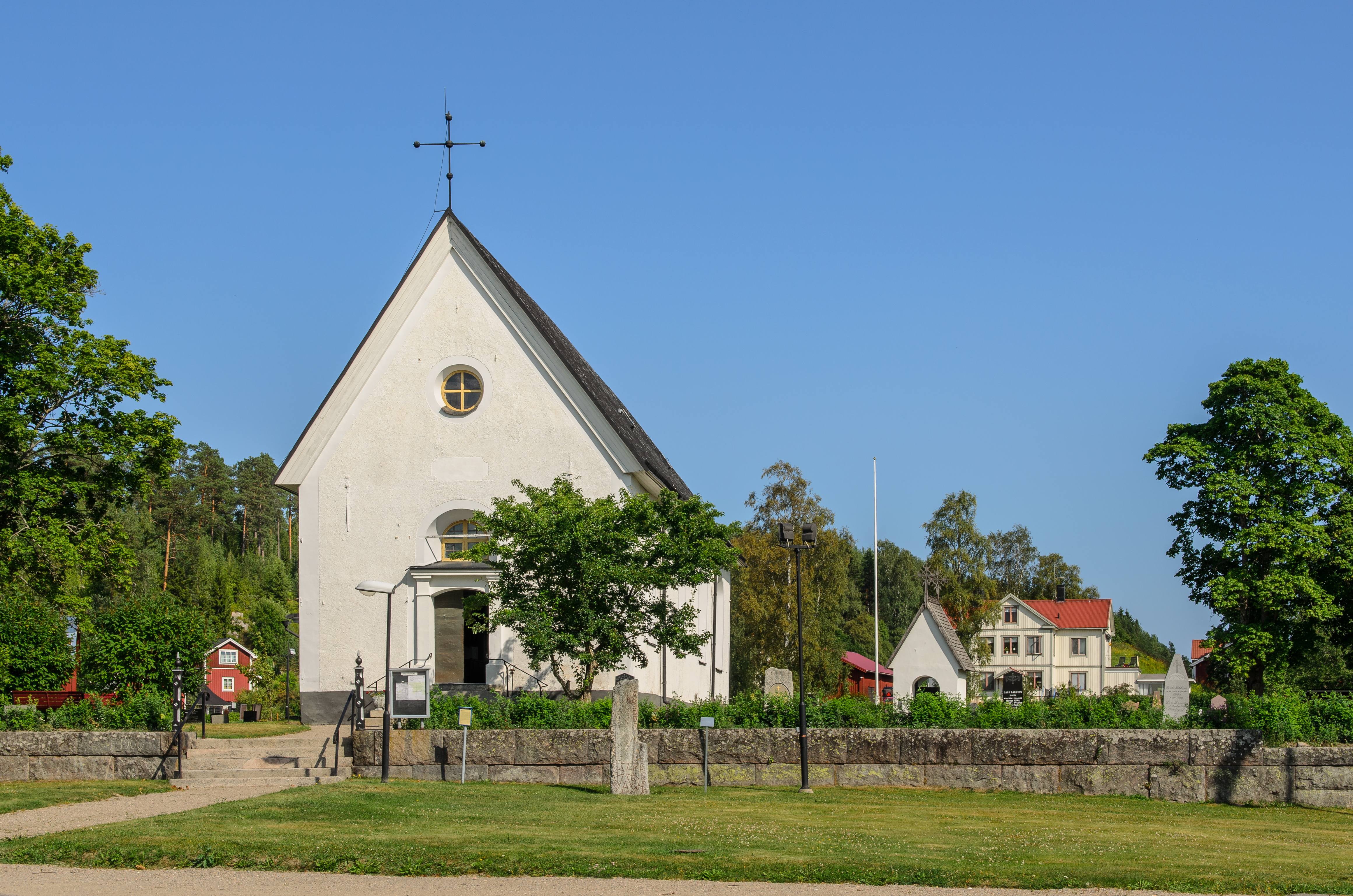 Högs kyrka (church) built 1179. Church of Sweden, Diocese of Uppsala, Forsa-Högs parish.